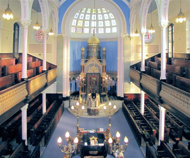 A photograph showing the interior of Garnethill Synagogue including the seating, aspe, Torah-Ark, etc.